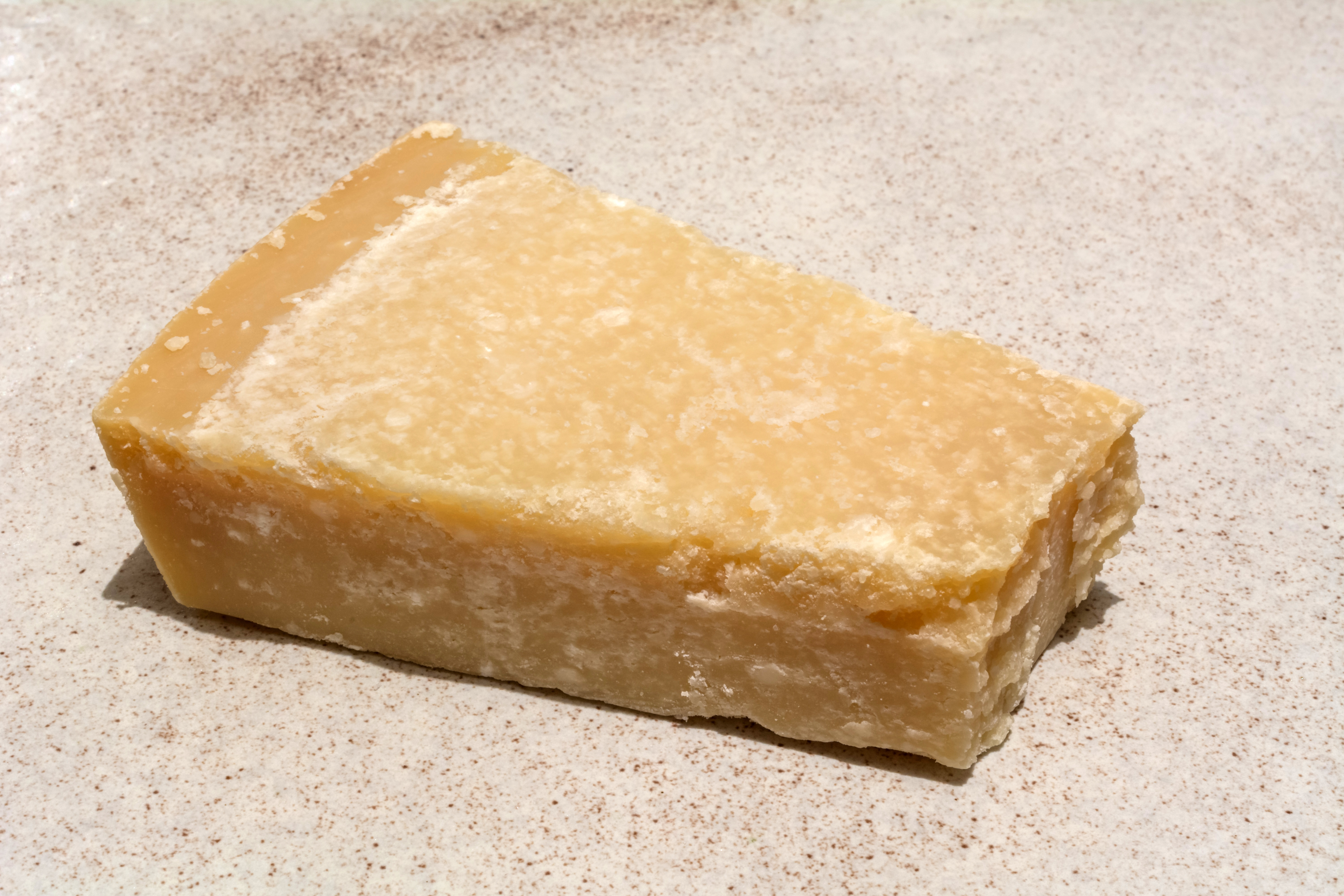 Parmigiano Reggiano DOP is an italian cheese. It has a fat content of approx. 32%.